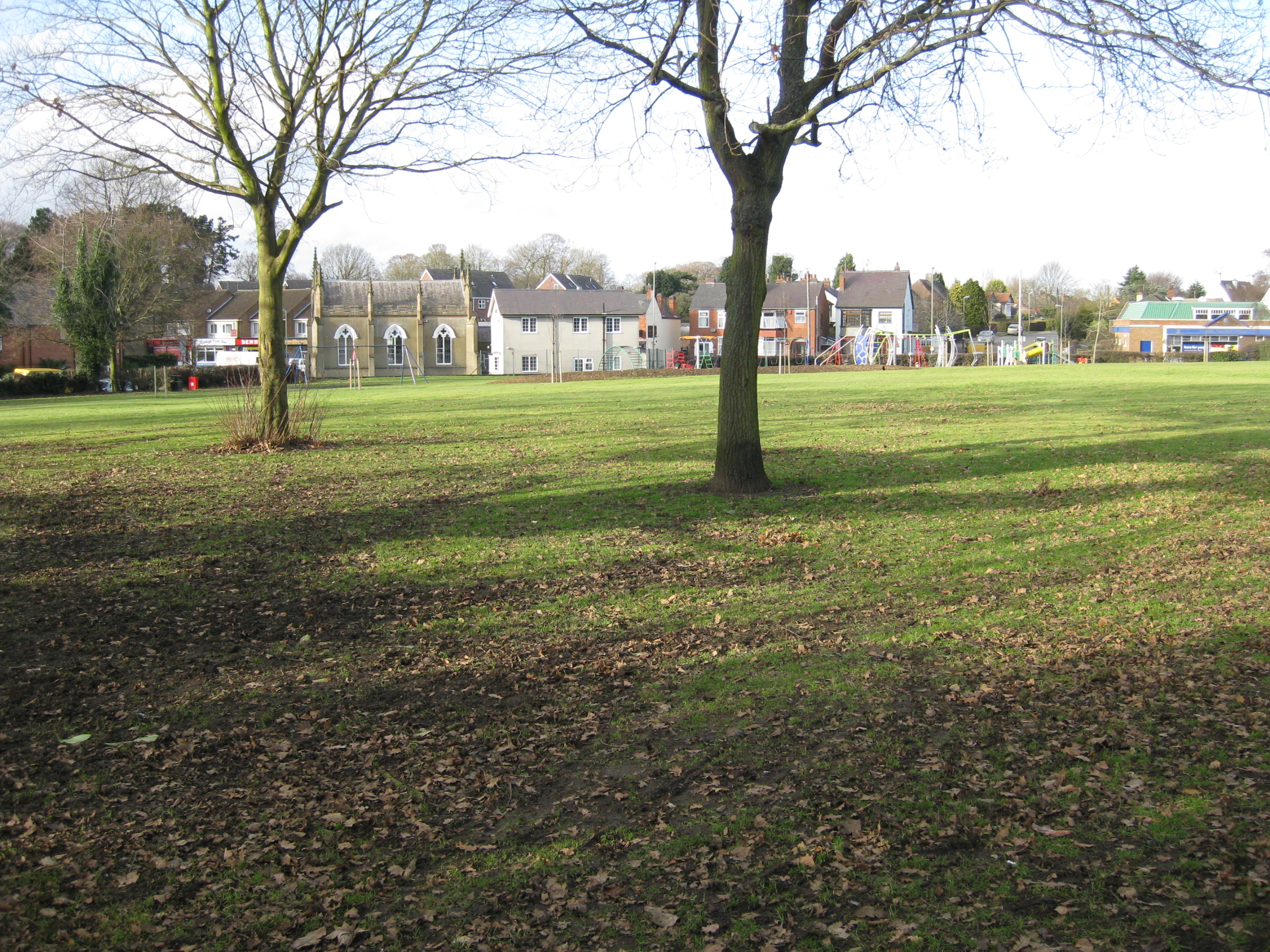 The Village Green, Evington, Leicester. On the far side, left is the Chapel. Other buildings on Main Street.